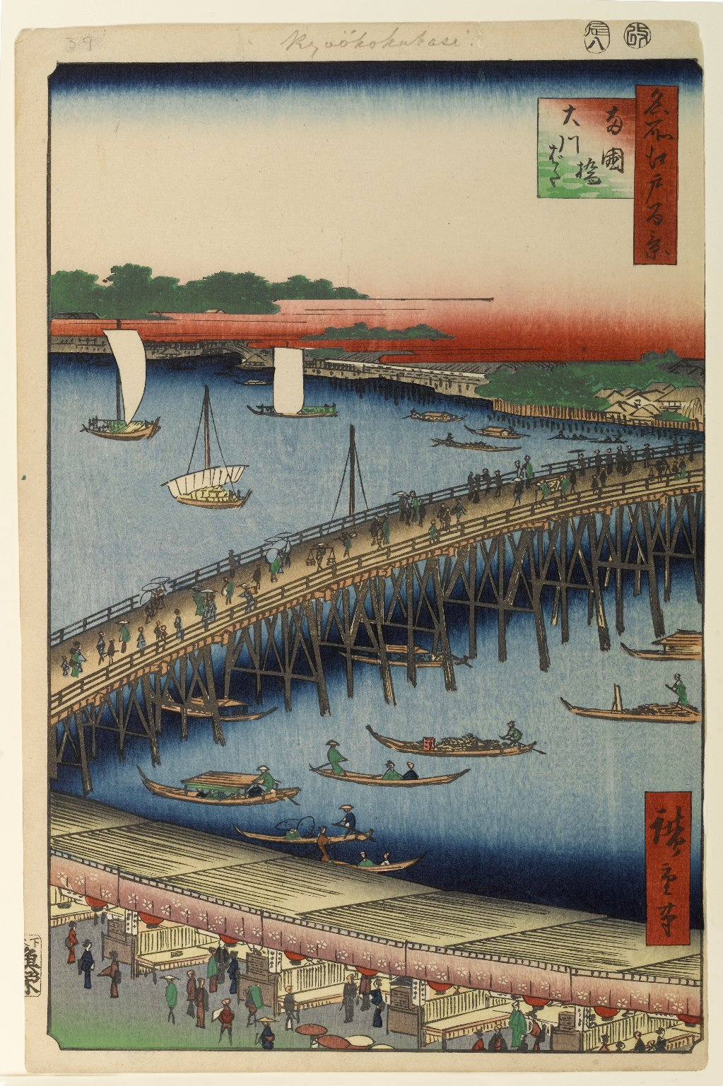 Part of the series One Hundred Famous Views of Edo, no. 059, part 2: Summer.